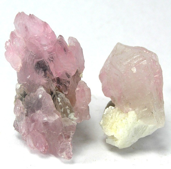 Quartz (Var.: Rose Quartz) Locality: Pitorra claim, Laranjeiras, Galiléia, Doce valley, Minas Gerais, Southeast Region, Brazil (Locality at ) Size: 4.9 x 2.6 x 1.4 cm, 3.4 x 2.1 x 1.9 cm. Two miniature specimens of rose quartz, the most desirable and rare variety, from Minas Gerais. One is a prism with facial distortions of pale pink - the other is a complex compound crystal with over a dozen terminations.